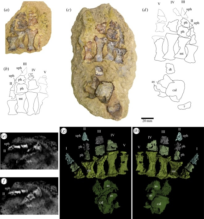 Left foot of T. eccentricus. (a–d) Rock slabs showing foot elements in basal cross section. (a,b) Palmar view, (c,d) dorsal view. (e,f) X-ray images showing digits 1 (dorsal view) and 2 (medial view). (g,h) Three-dimensional renderings of foot reconstructed from X-ray images: (g) palmar and (h) dorsal views. as, astragalus; cal, calcaneum; dt, distal tarsal; mt, metatarsal; ph, phalanx; uph, ungual phalanx; I–V, digit number.